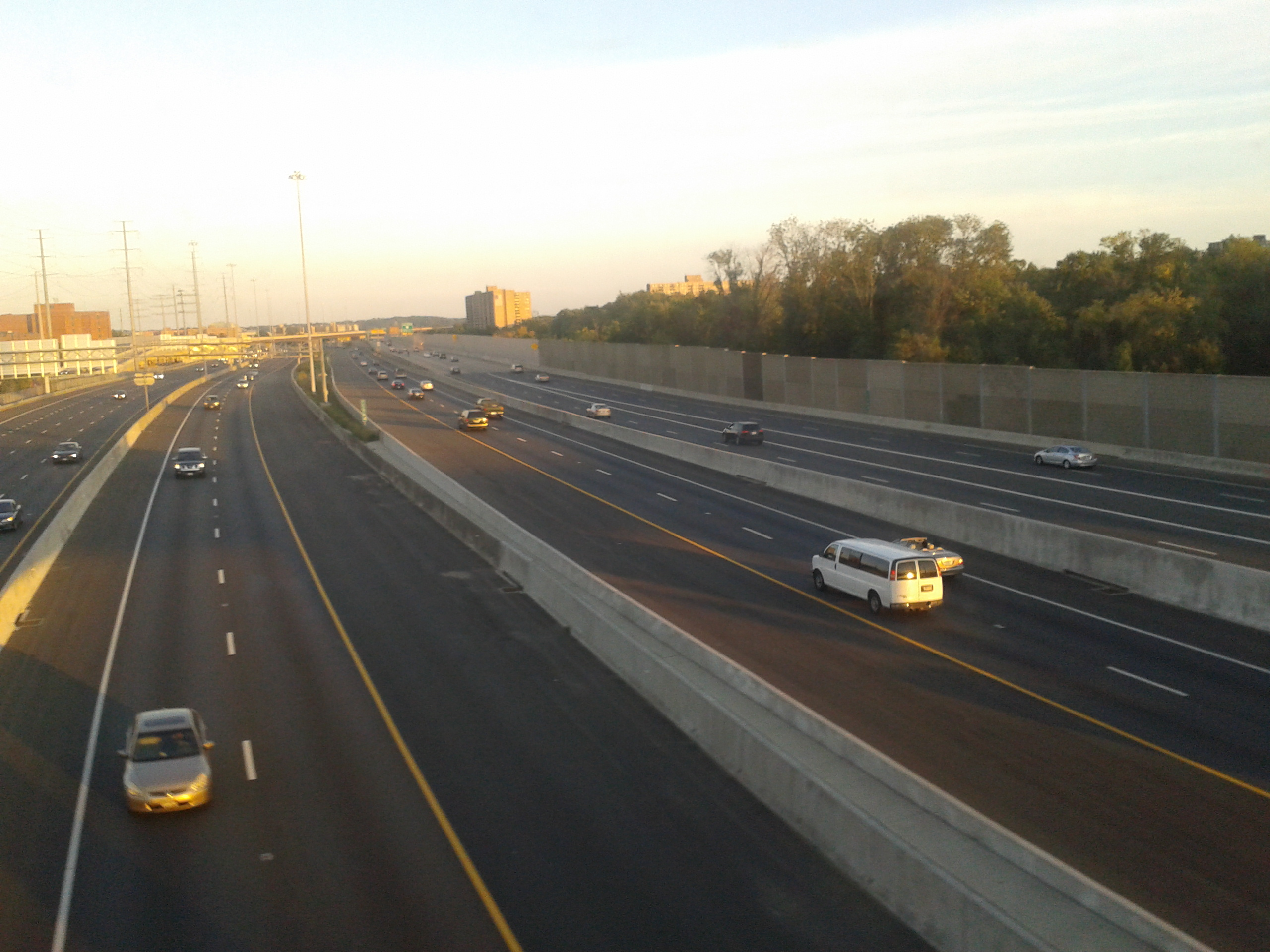 Capital Beltway seen from Metro